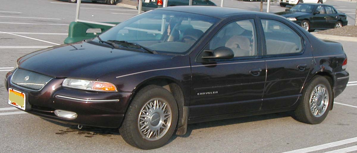 1995-2000 Chrysler Cirrus photographed in USA.